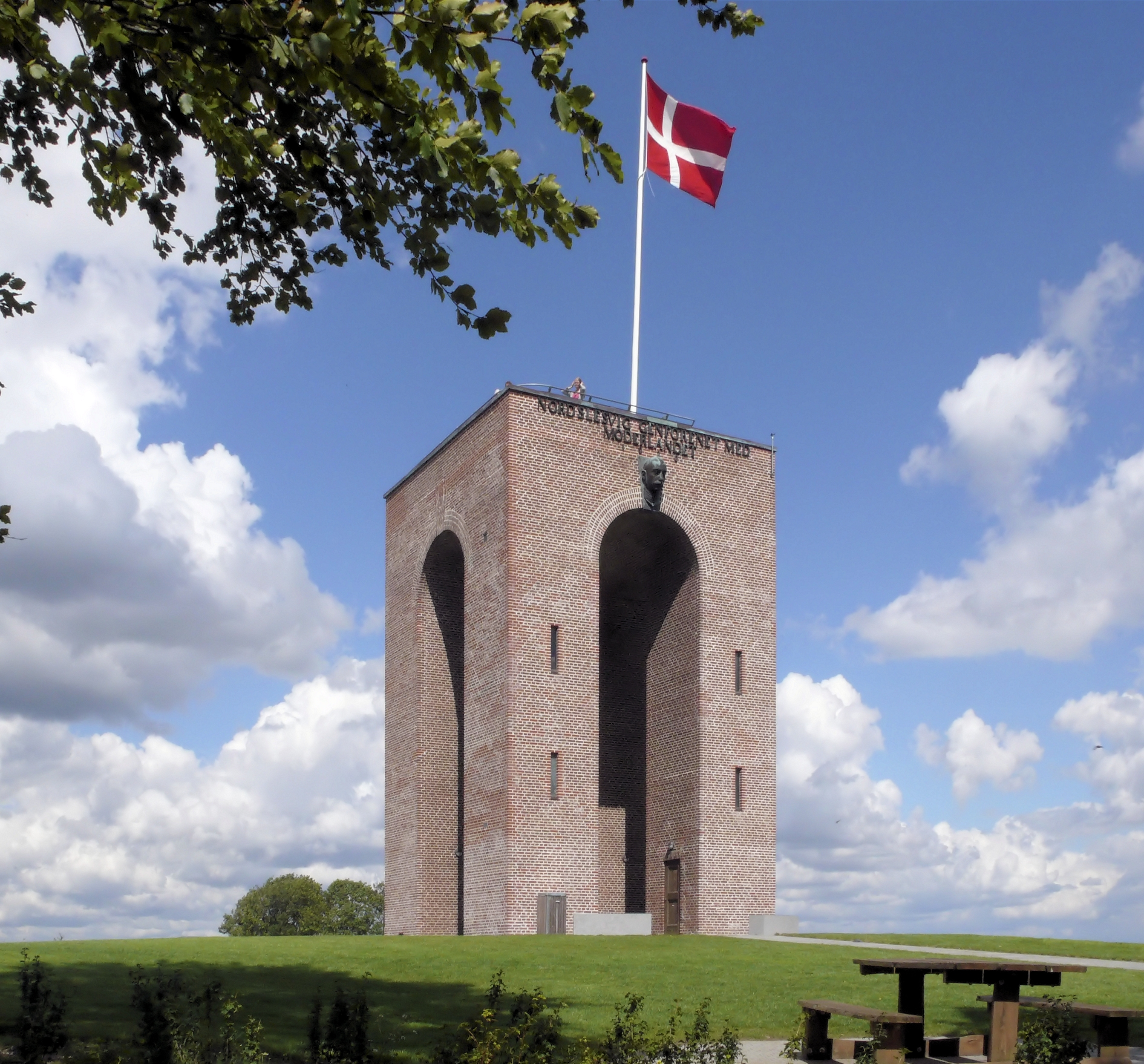 The reunion tower on Ejer Bavnehøj was built in 1924 in memory of the reunion of the south of Jutland in 1920 after the First World War.